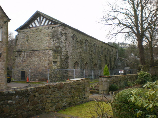 Part of Whalley Abbey